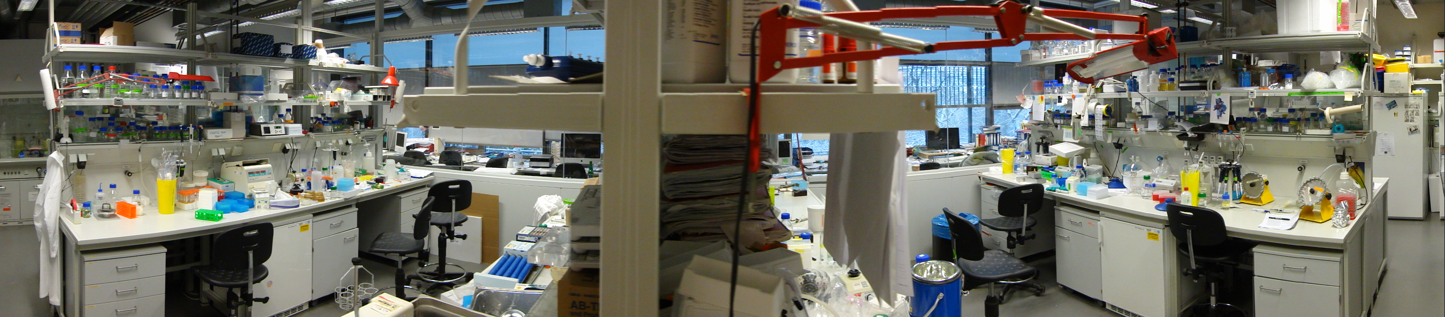 "Panorama" of a modern biochemistry laboratory at MPI-CBG